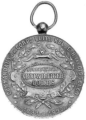 Reverse of the Johannesburg Vrijwilliger Corps-Medalje